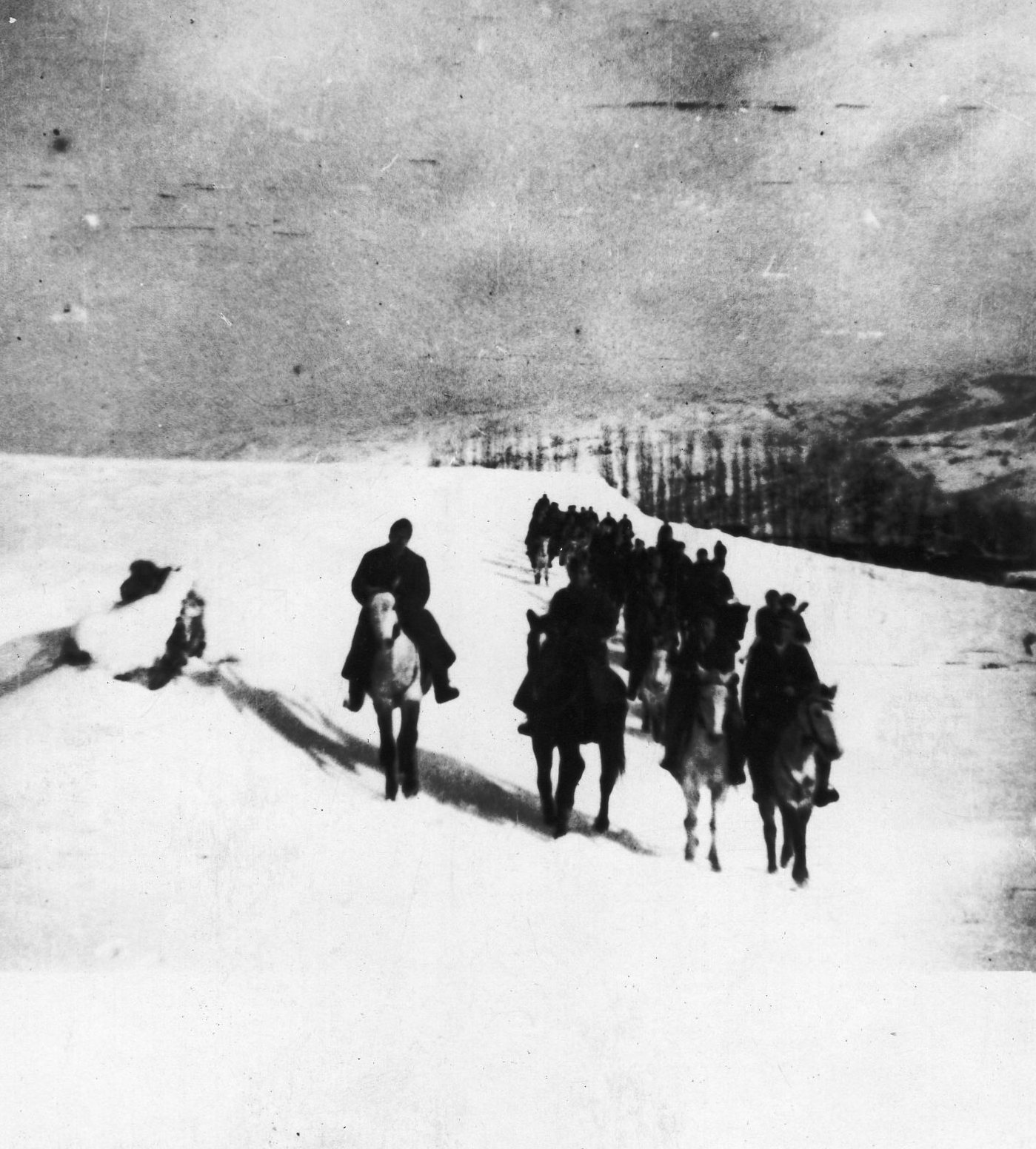 Column of Democratic Army of Greece fighters This media file is produced by Wikipedian in Residence in Category:Wikipedian in Residence at DARM in 2016.